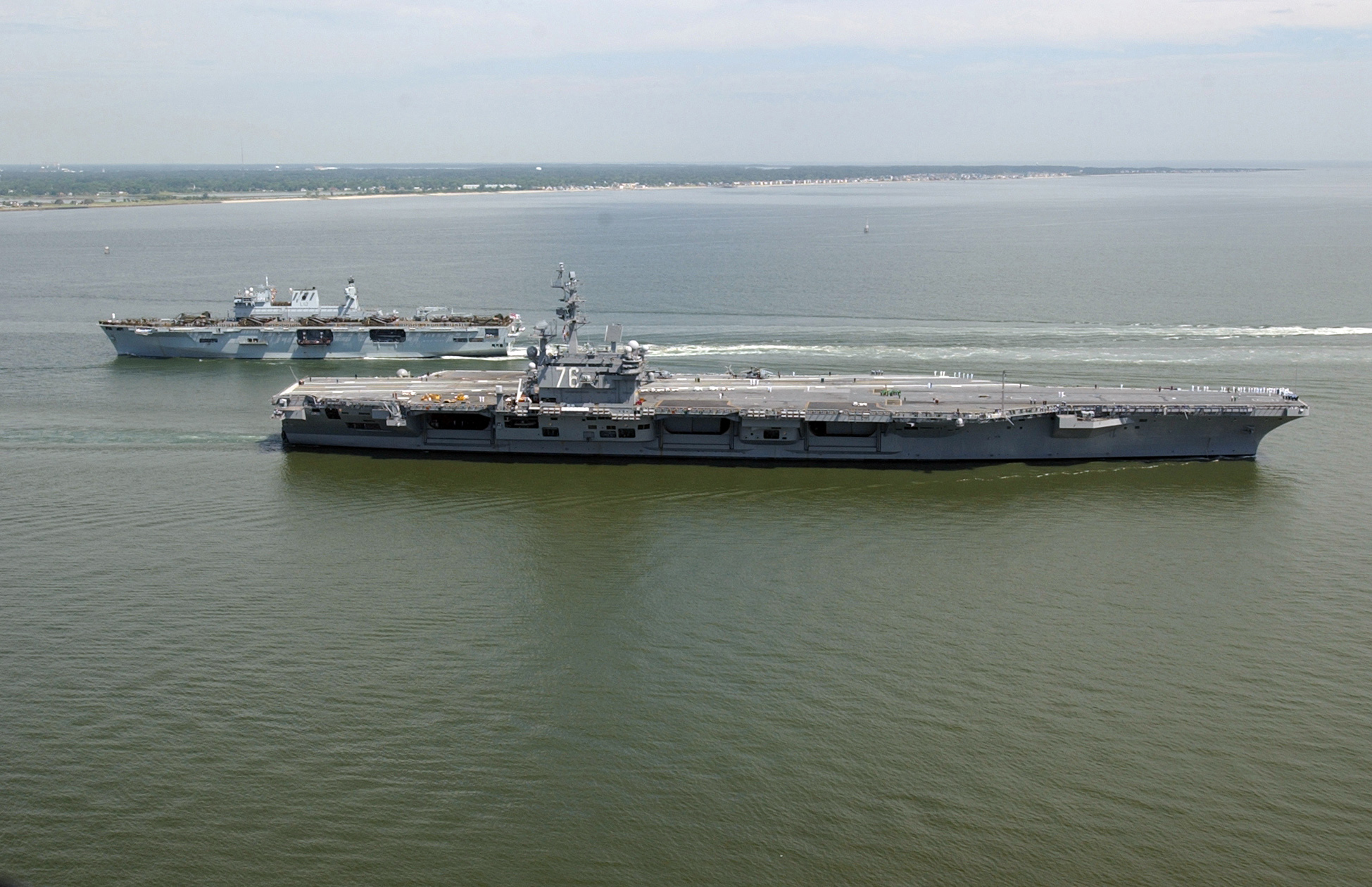 Norfolk, Va. - USS Ronald Reagan (CVN 76) passes the Royal Naval Amphibous Assualt Ship HMS Ocean (L12) while transiting the Chesapeake Bay. The ship departed Naval Station Norfolk for the final time to circumnavigate South America on its way to its new homeport of San Diego.